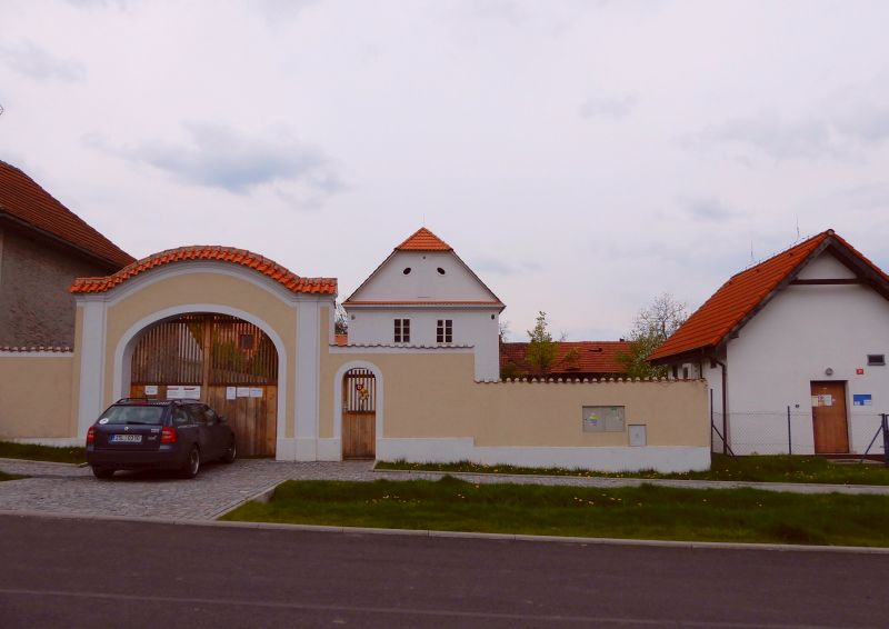 Ledčice, former farmhouse Num.15